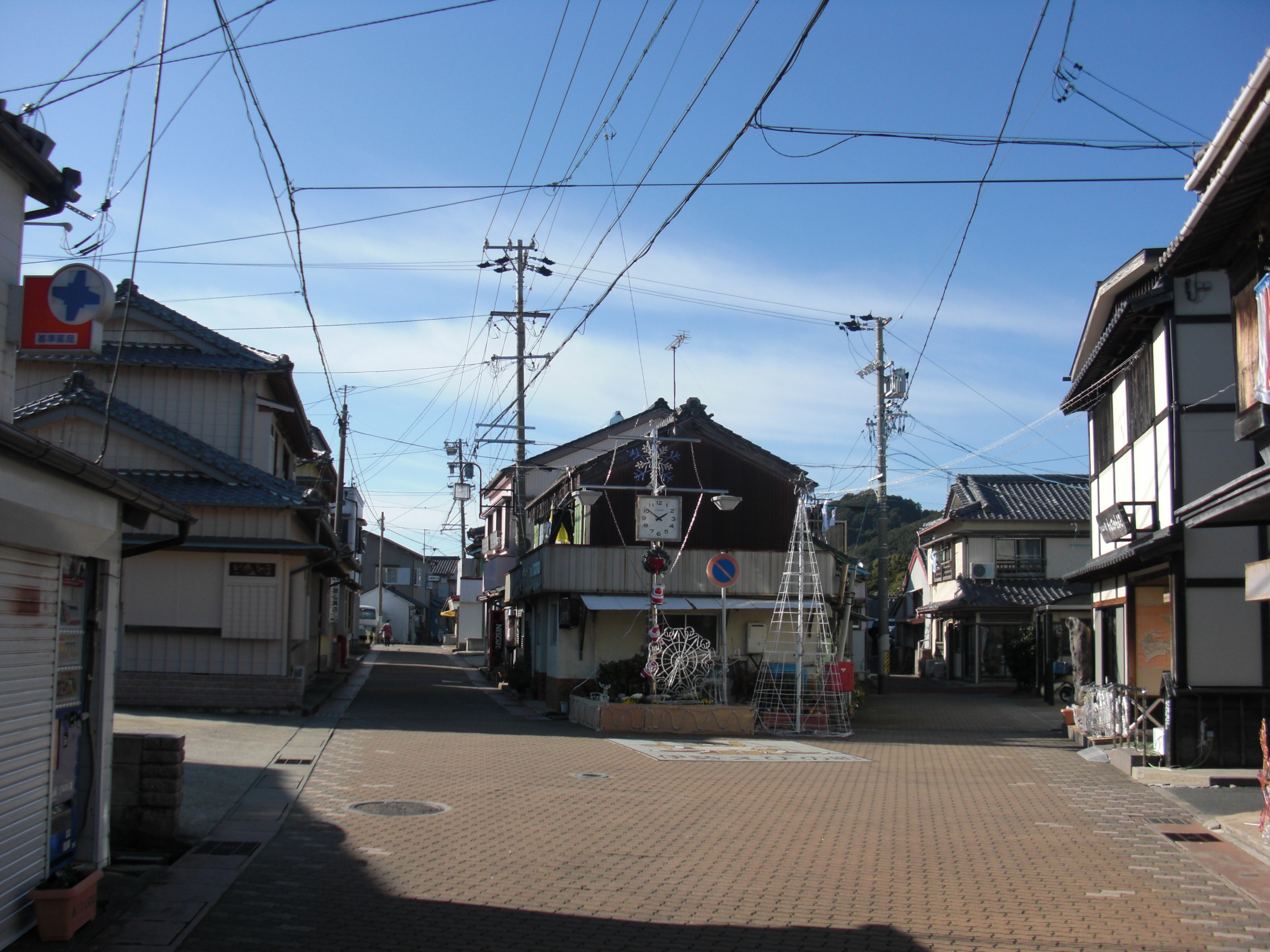 This is a street in Shima, Mie, Japan.